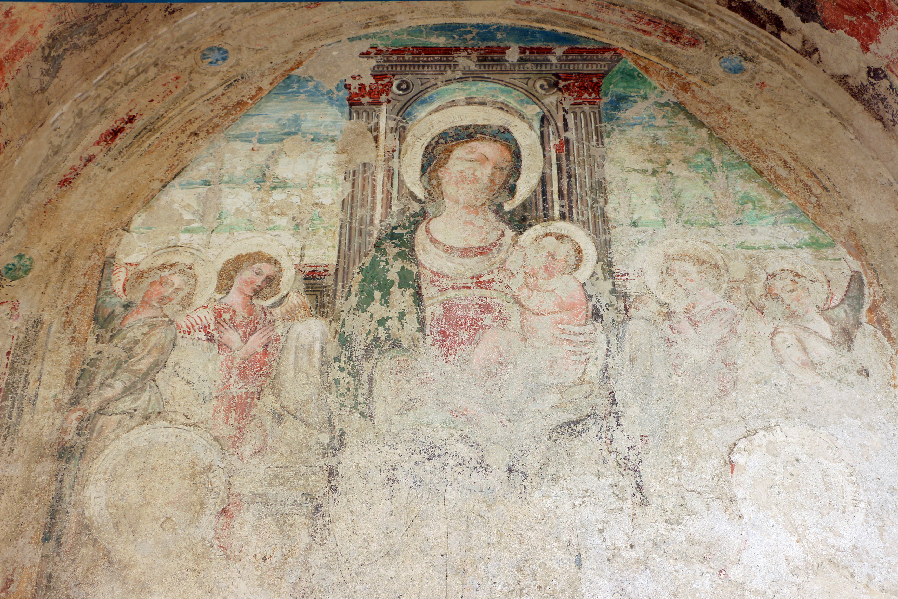 Madonna delle Querce shrine